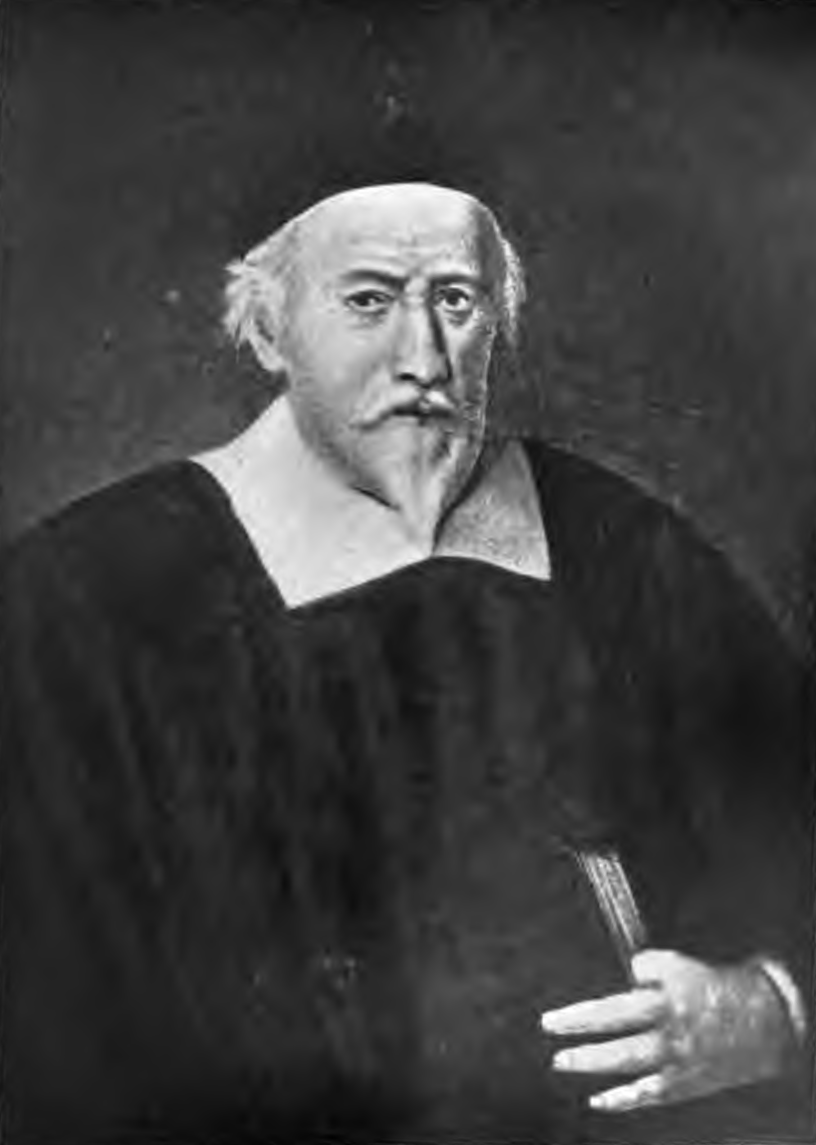 John Livingston of Ancrum (beard to collar, finger in book)